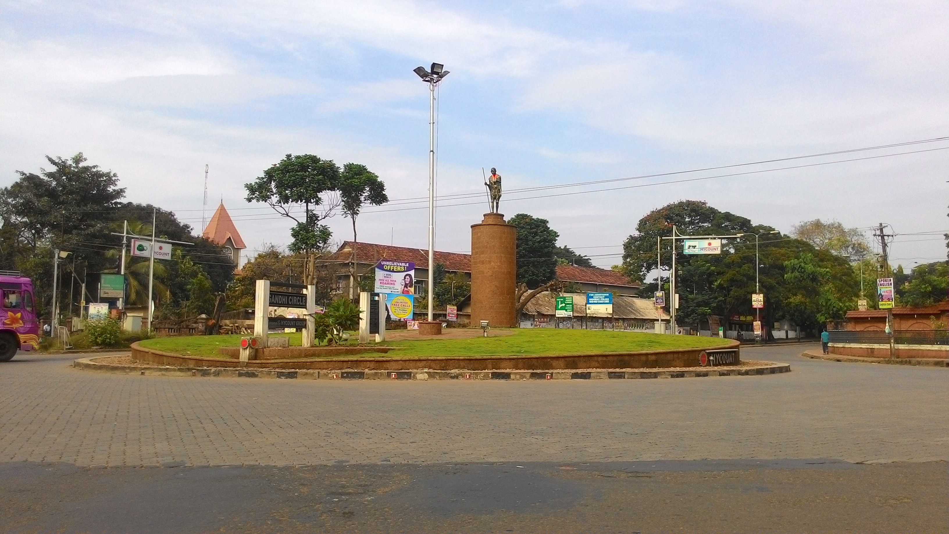 Caltech junction ,Kannur,Kerala,India